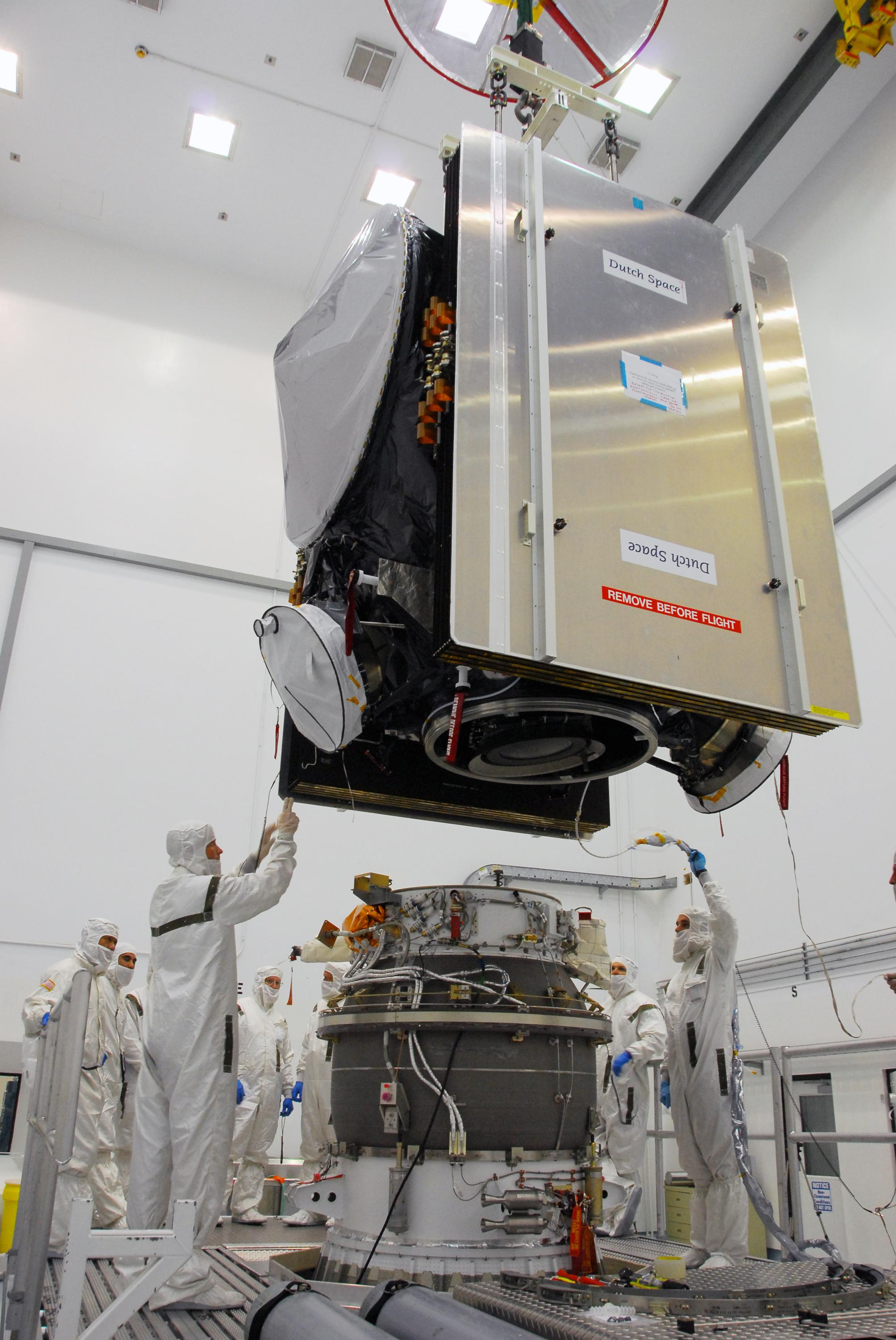 The Dawn Spaceprobe is lifted onto the Delta II 7925H upperstage.